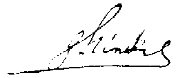 Gottfried Kinkel's (German poet, art historian and revolutionary) signature